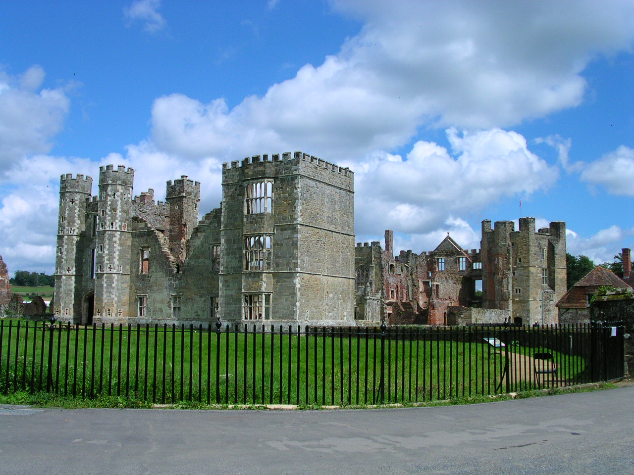 My own work